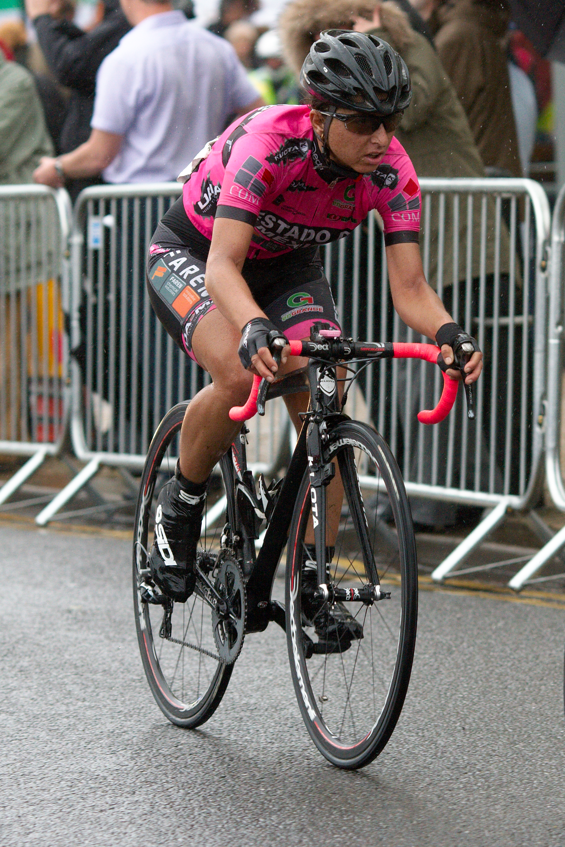 Rossella Ratto (Estado de Mexico Faren), about to sprint to victory during stage two of the Women's Tour 2014.